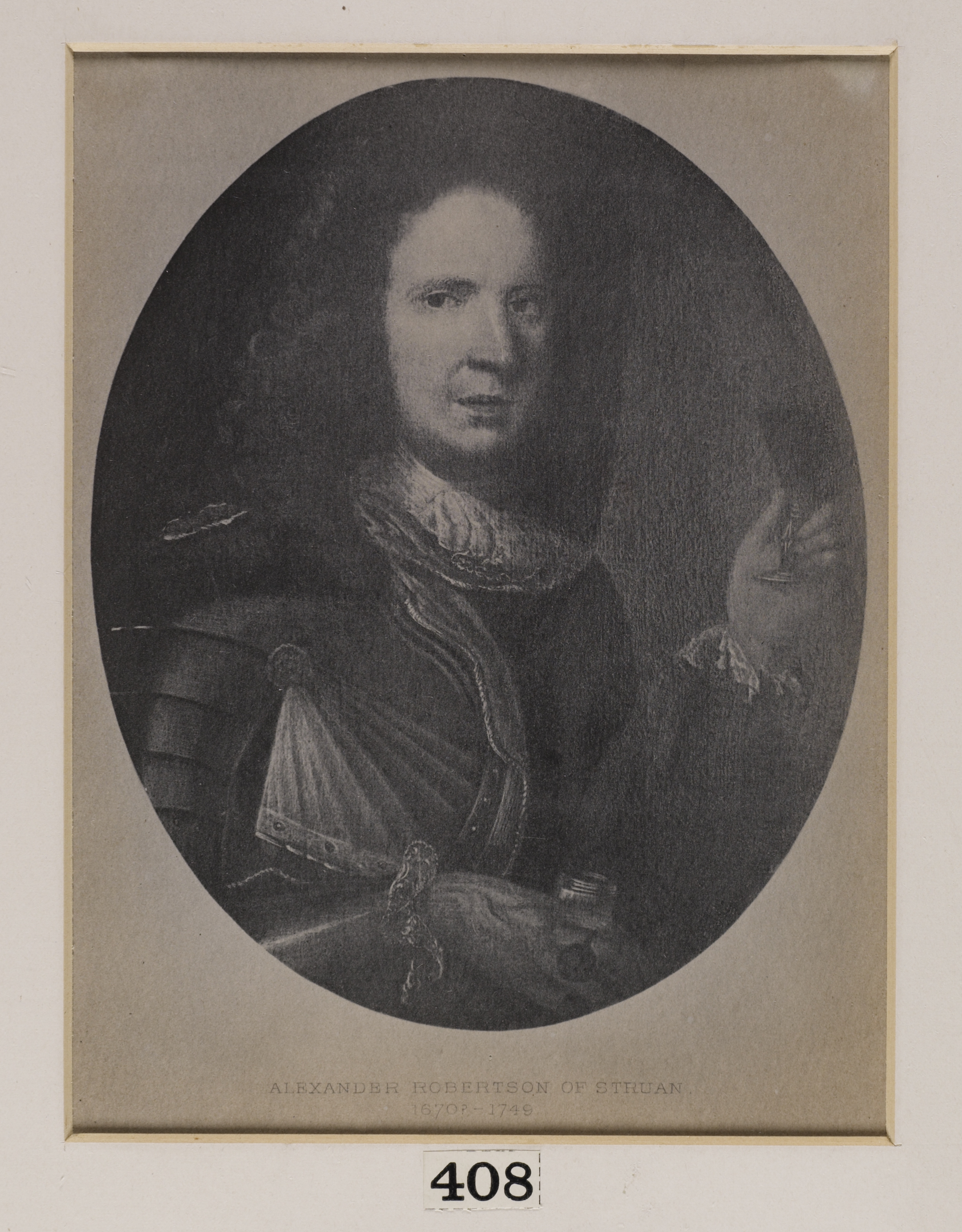 Alexander ROBERTSON of Struan (1670- 1749) Jacobite, poet, clain chieftain Oval Portrait of Alexander Robertson of Struan, in armour, and frilly collars, holding a wine glass in one hand and something else in the other, large ring on finger